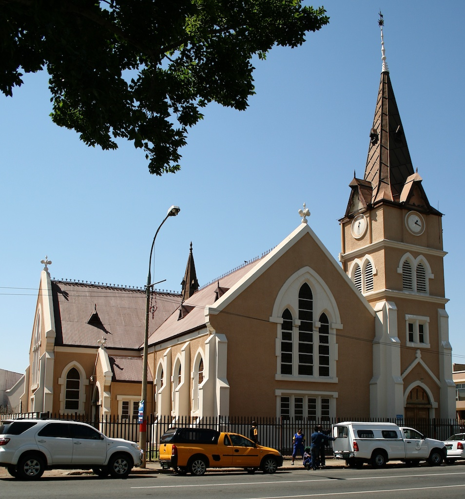 Nederduits Gereformeerde Mother Church, Anderson Street, Klerksdorp This media shows a South African Protected Site with SAHRA file reference 9/2/231/0009.